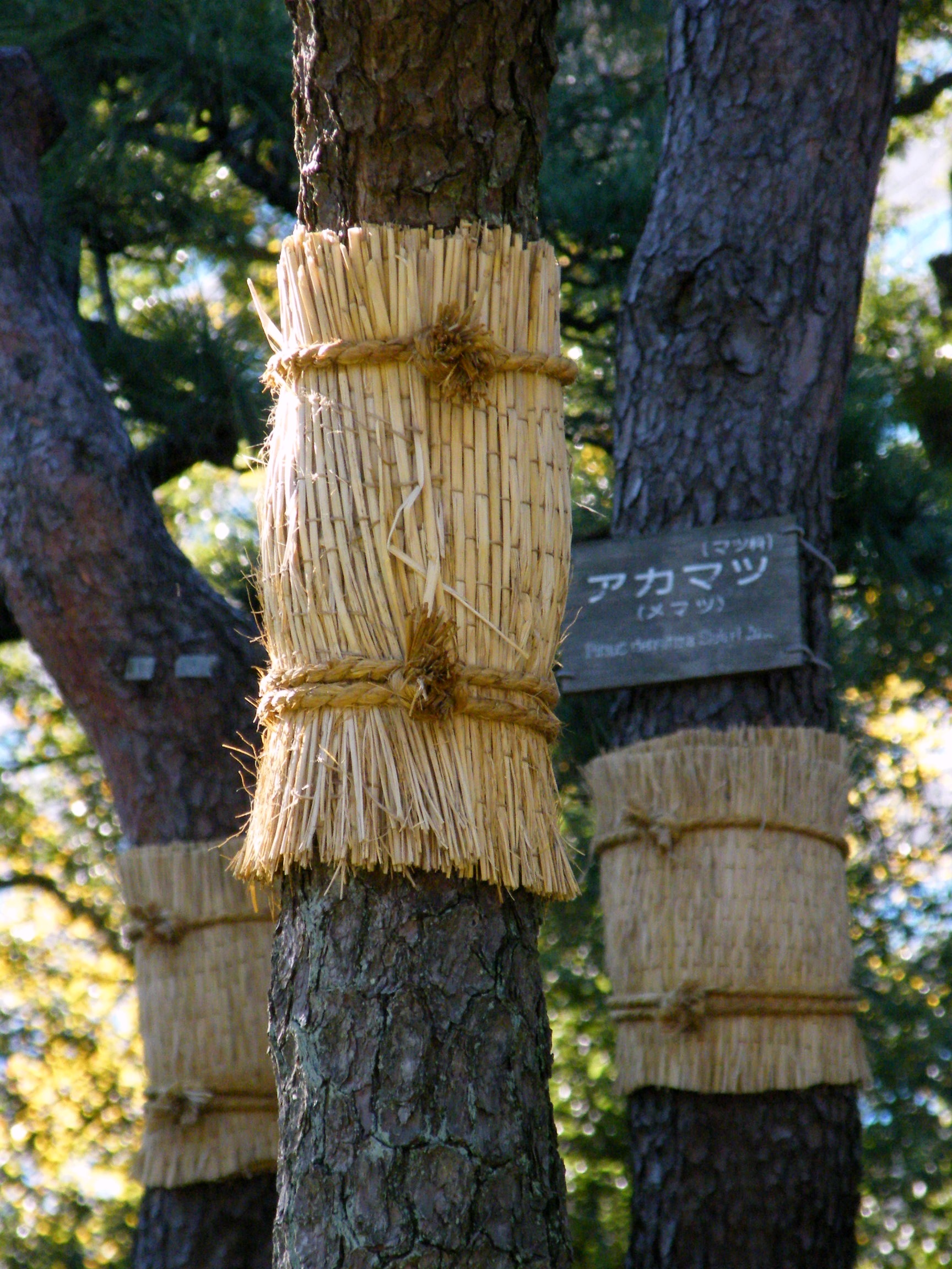 Komomaki in Hibiya Park, Tokyo, Winter 2014.